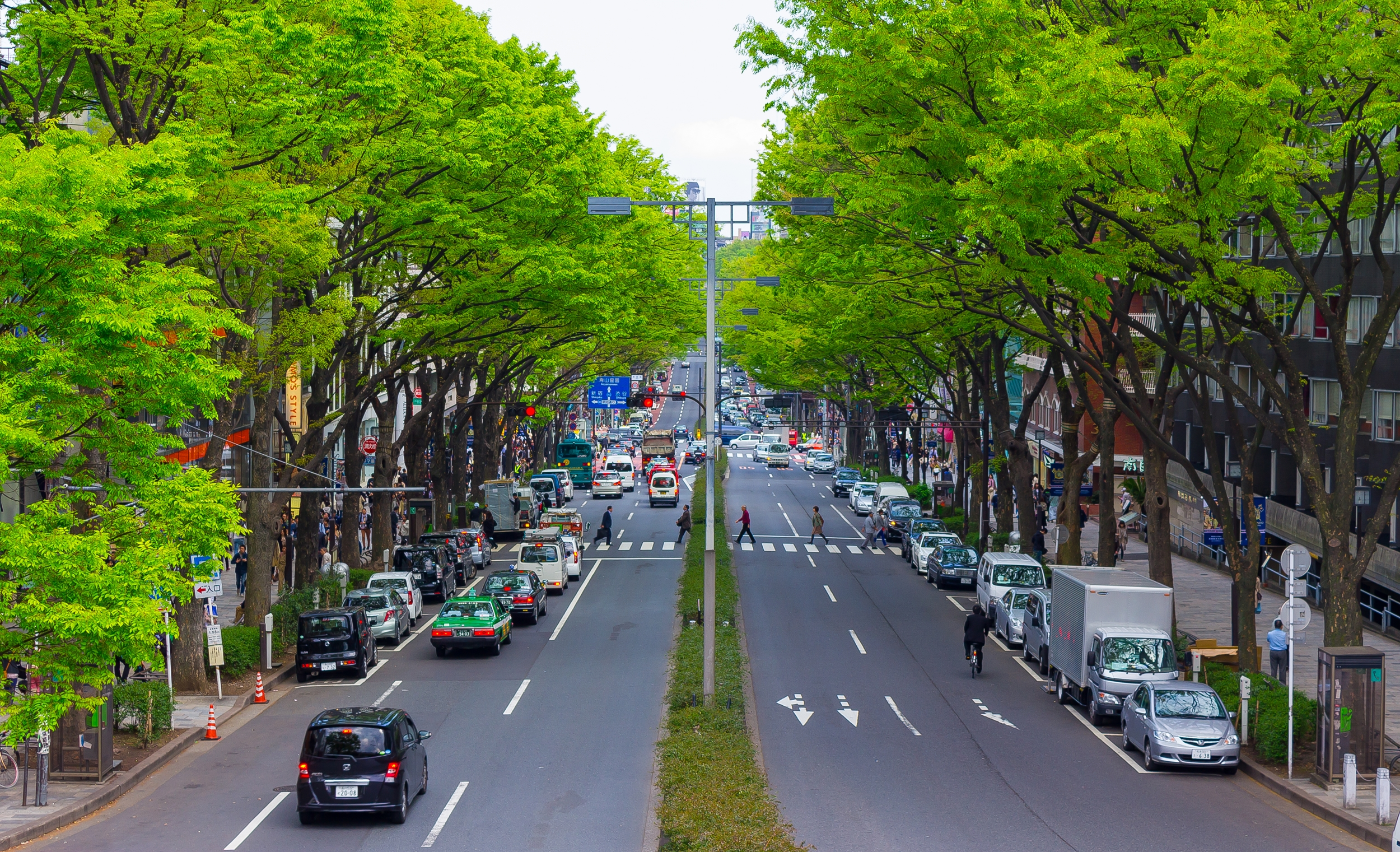 Omotesando Street (Harajuku, Tokyo, Japan) from a pedestrian overpass